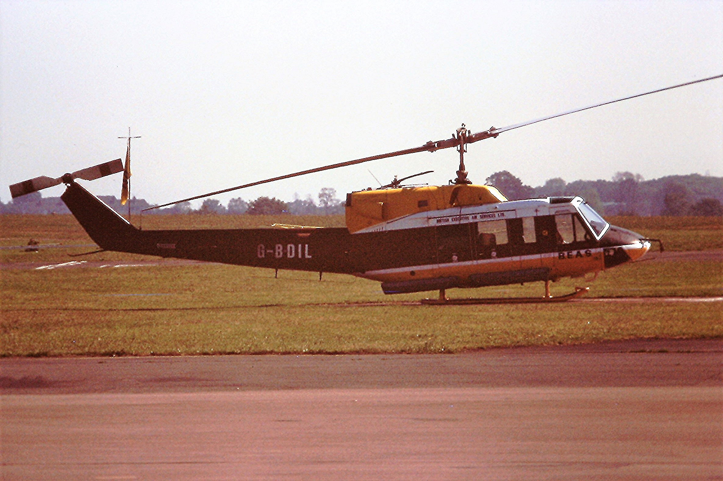 G-BDIL Bell212 BEAS Coventry 03-07-1977